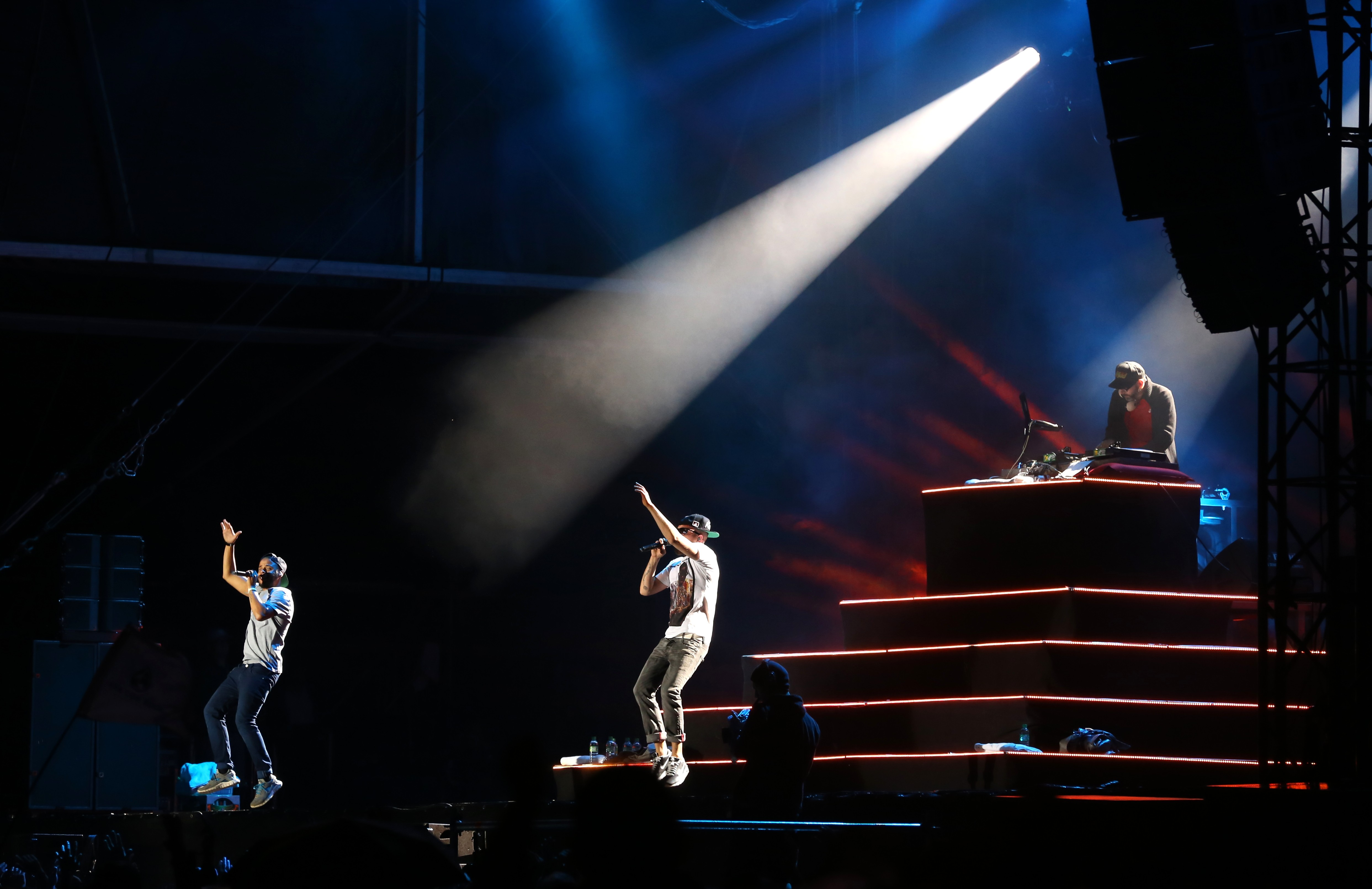 Beginner at Chiemsee Reggae Summer Festival 2013